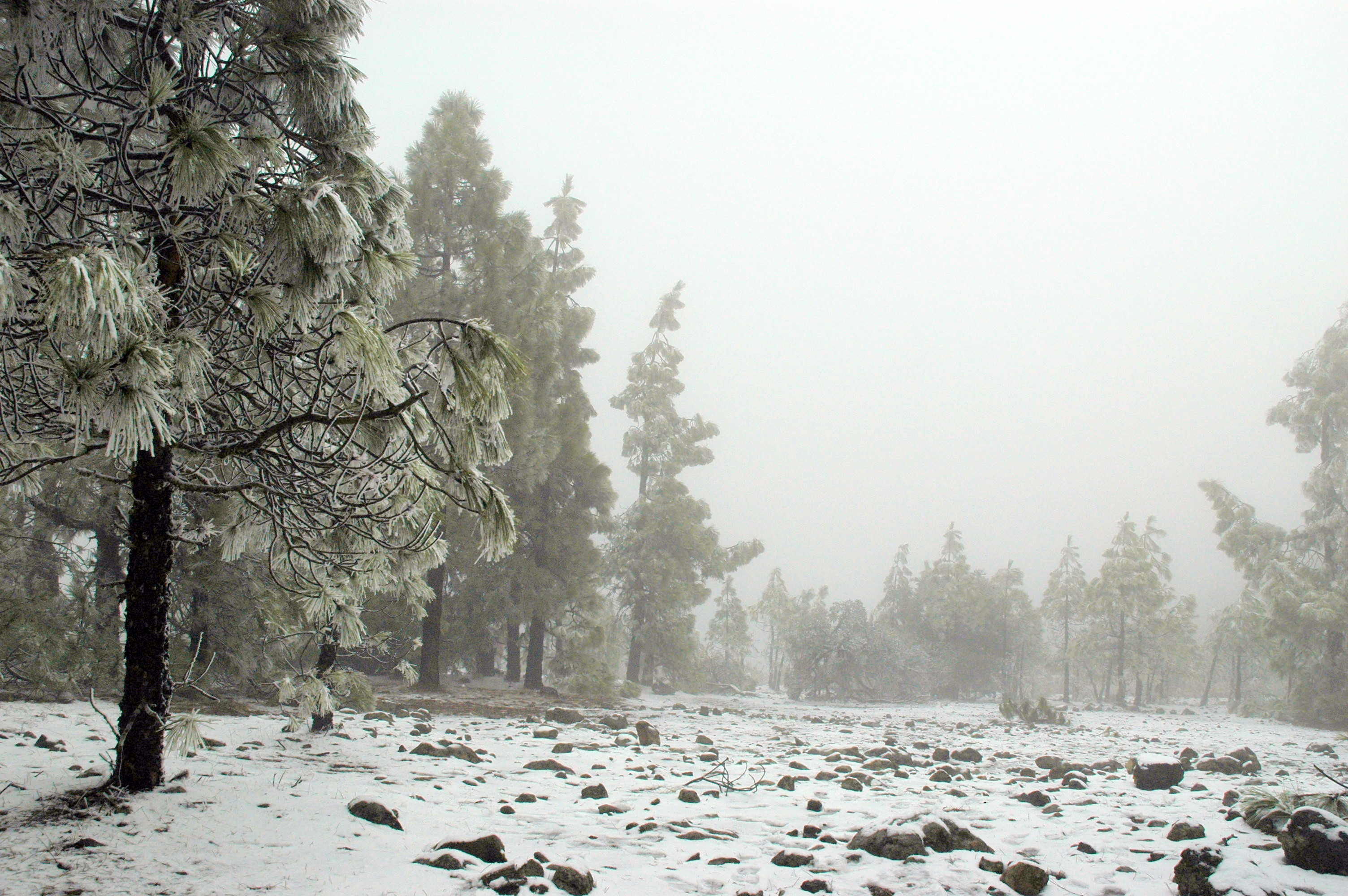 Snows in the Canary Islands, February 2005. Alto del Pozo (Vega de San Mateo, Gran Canaria).